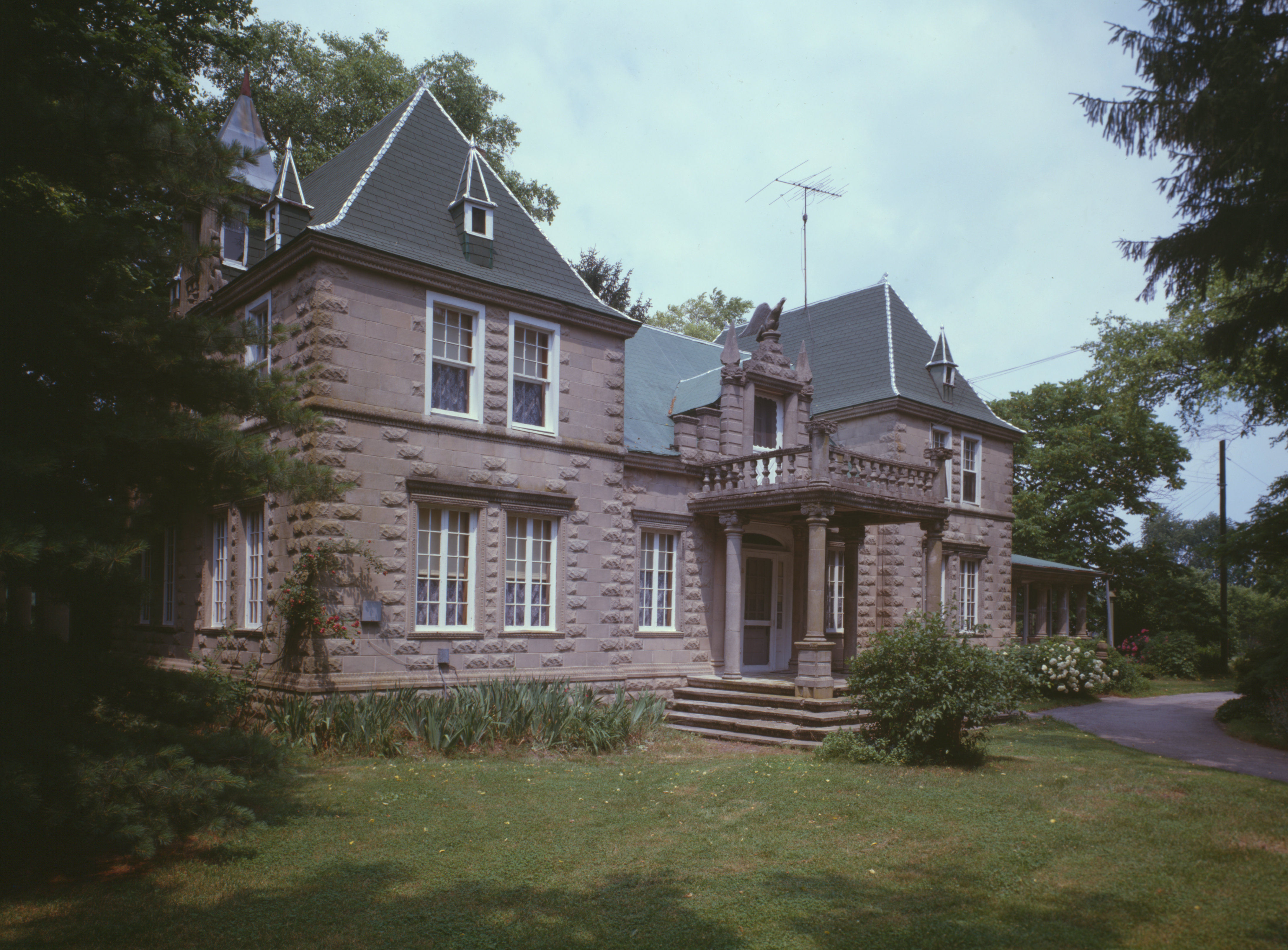 EAST FRONT FROM SOUTHEAST - Vogl House, State Road 277, Harrington, Kent County, DE